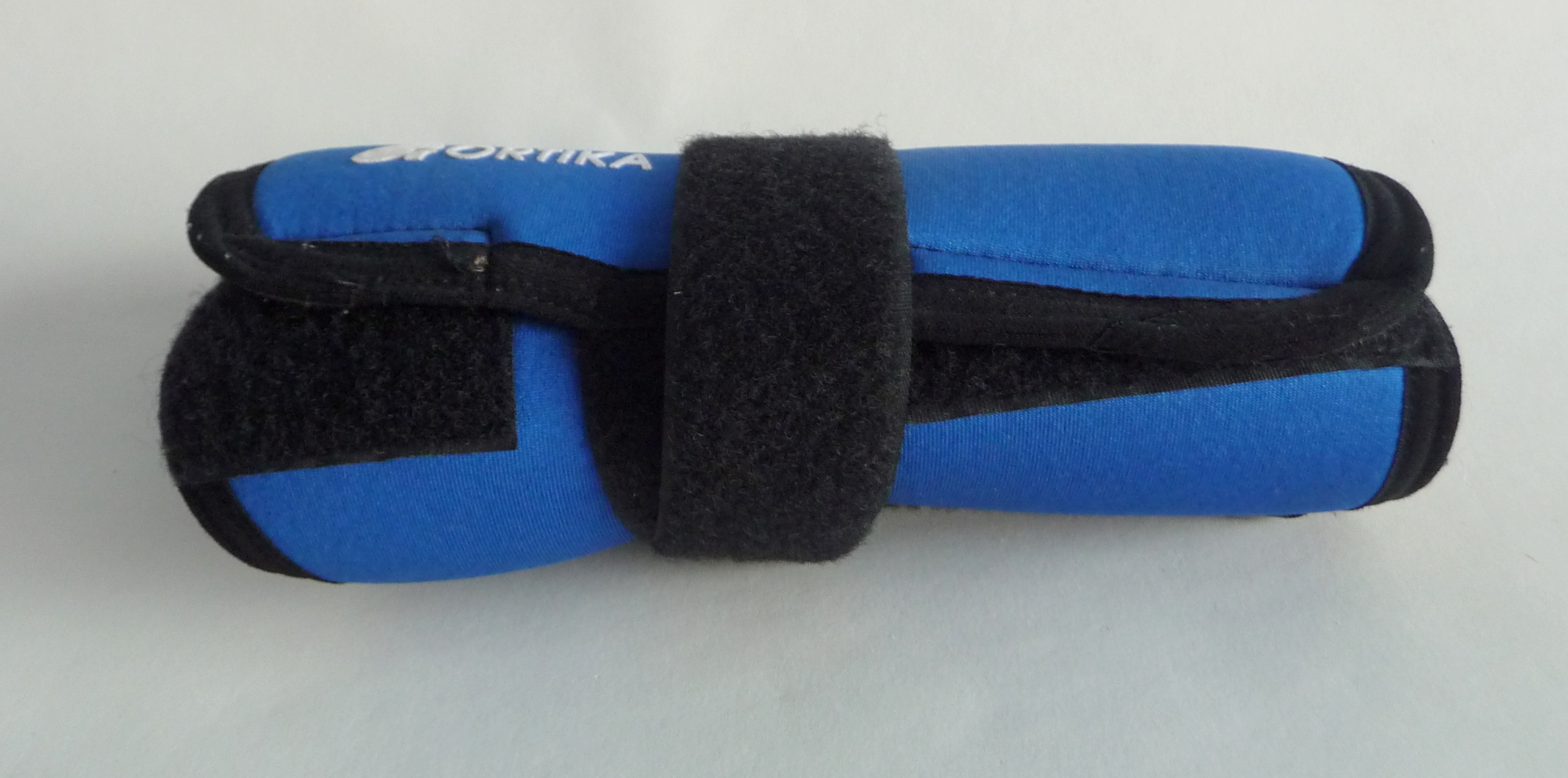 Blue orthosis Ortika intended to fixation thumb on the left hand